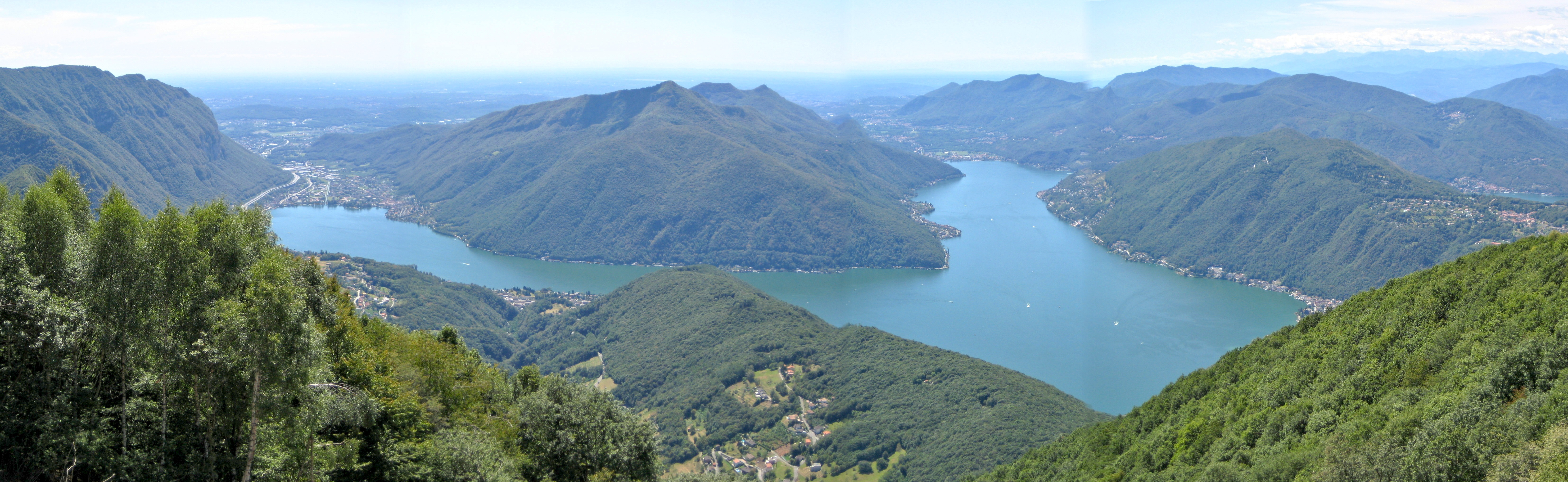 Lake Lugano seen from the summit of the Sighignola (Balcone d'Italia) Panorama Stitch